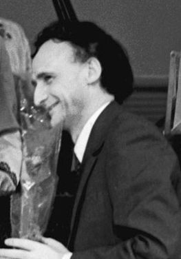 The Moldavian poet Grigore Vieru (on the right). 70th years.